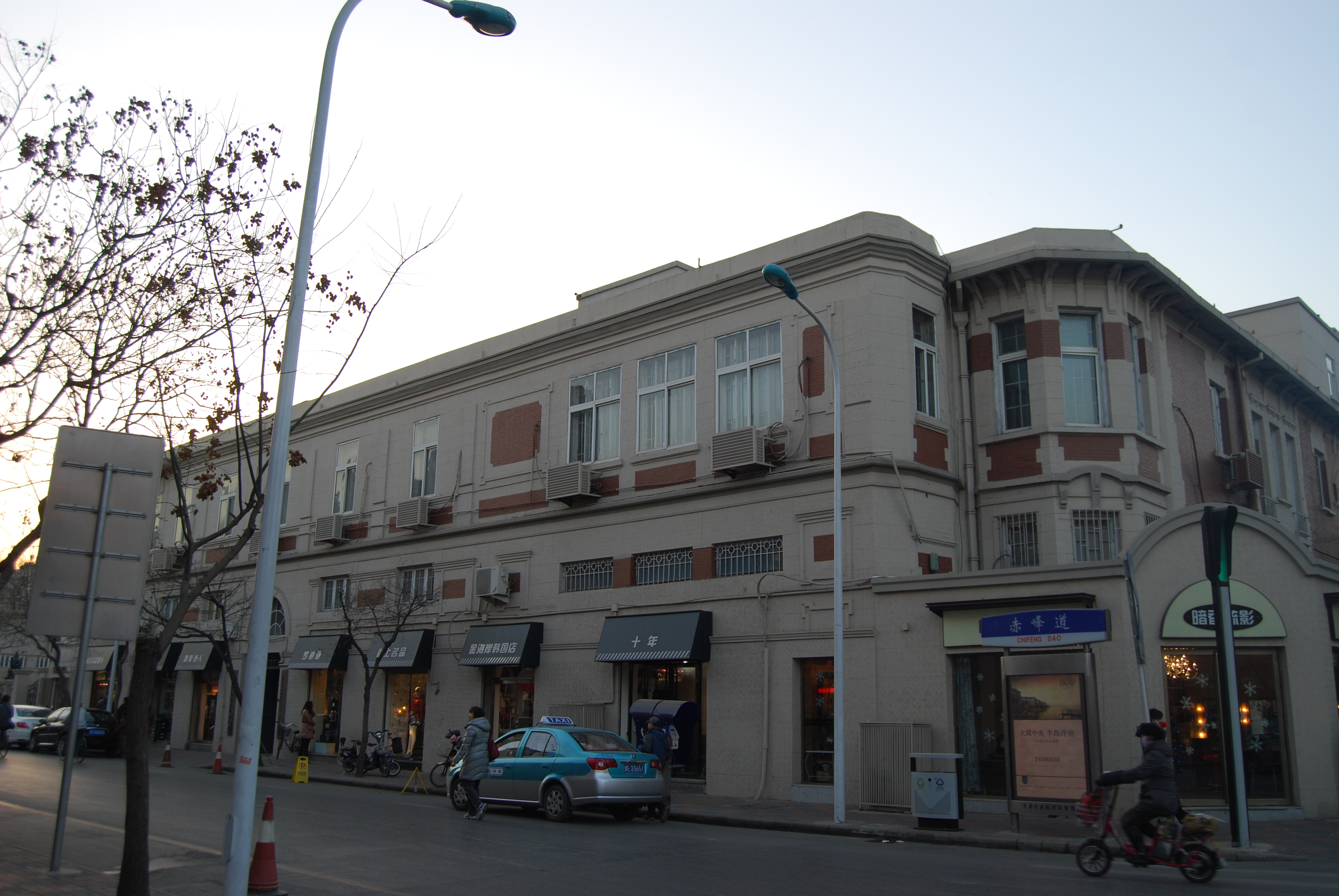 Former house of Fan Zhuzhai in Chifeng Dao No. 76, Heping District, Tianjin